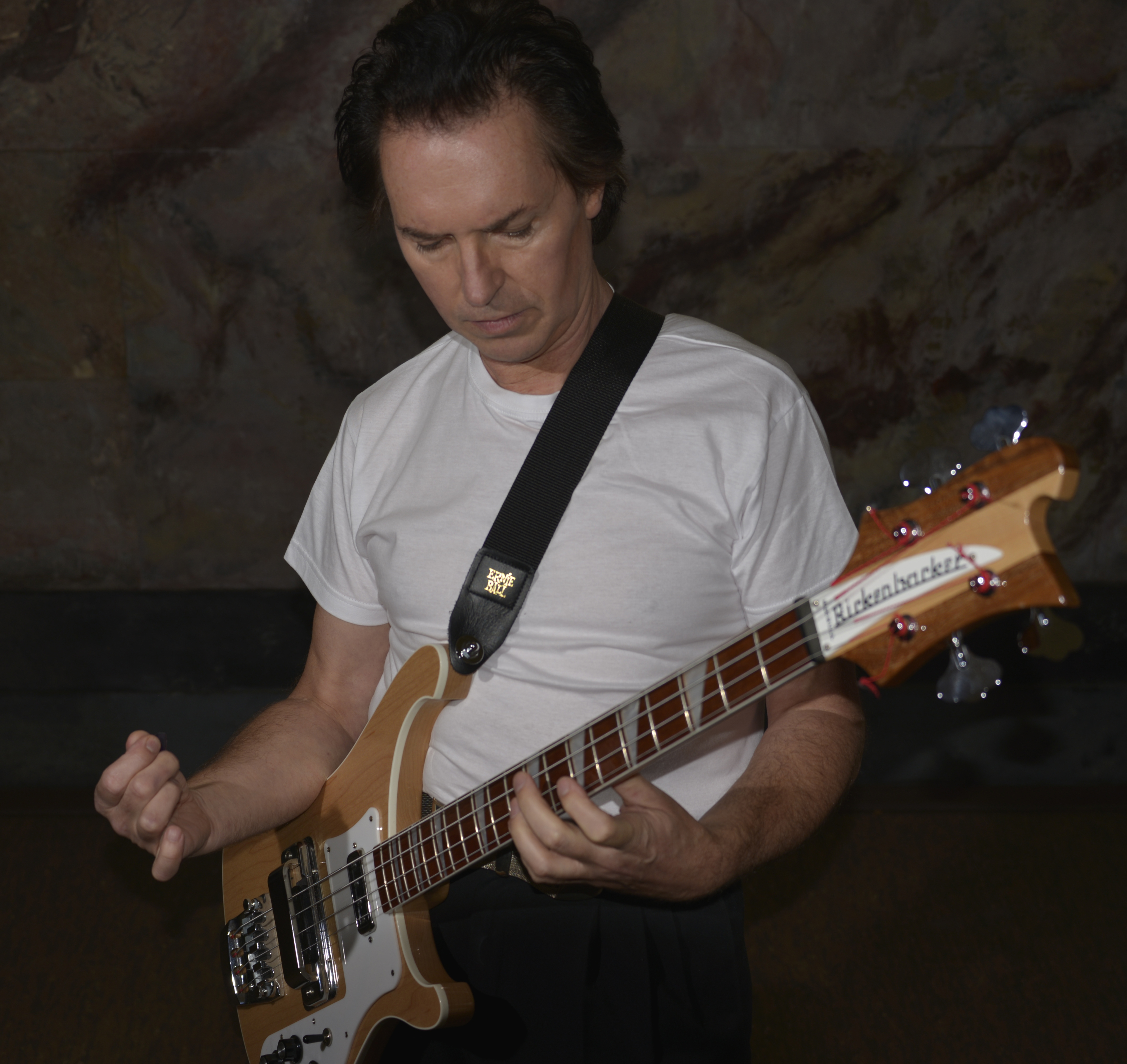 Musician Martin Gordon in 2014